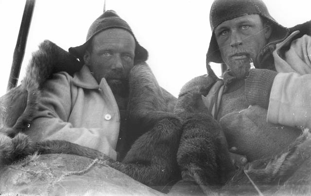 Frank Wild & Watson in sleeping bag tent on sledge journey. First Australasian Antarctic Expedition, 1911-1914